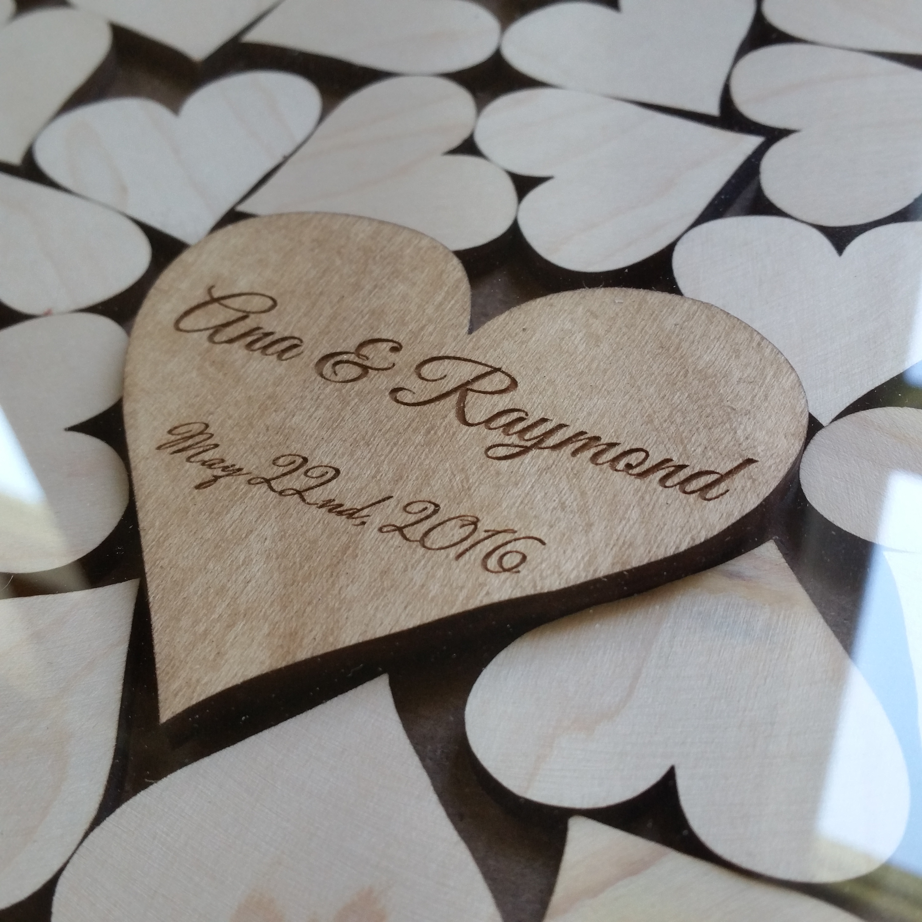 Drop top guest book center engraved personalized piece